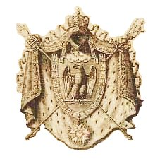 Coat of arms of the French First Empire